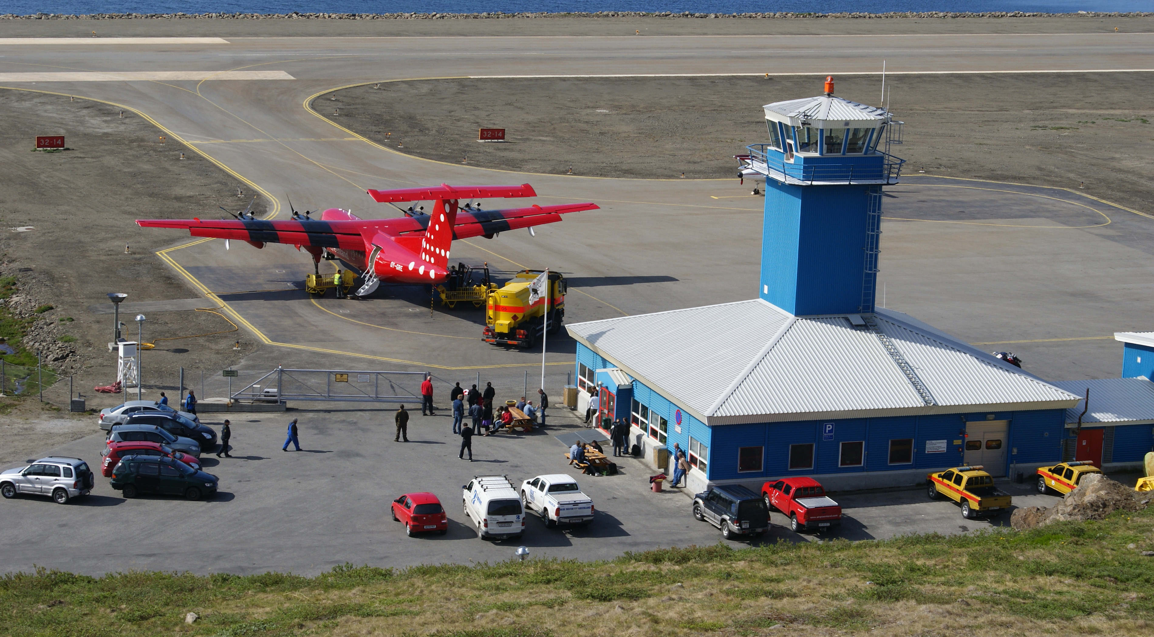 Sisimiut Airport, Greenland. Air Greenland de Havilland Canada Dash-7 "Taateraaq" on the tarmac.